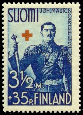 Postage stamp depicting Finnish senator J. M. Nordenstam